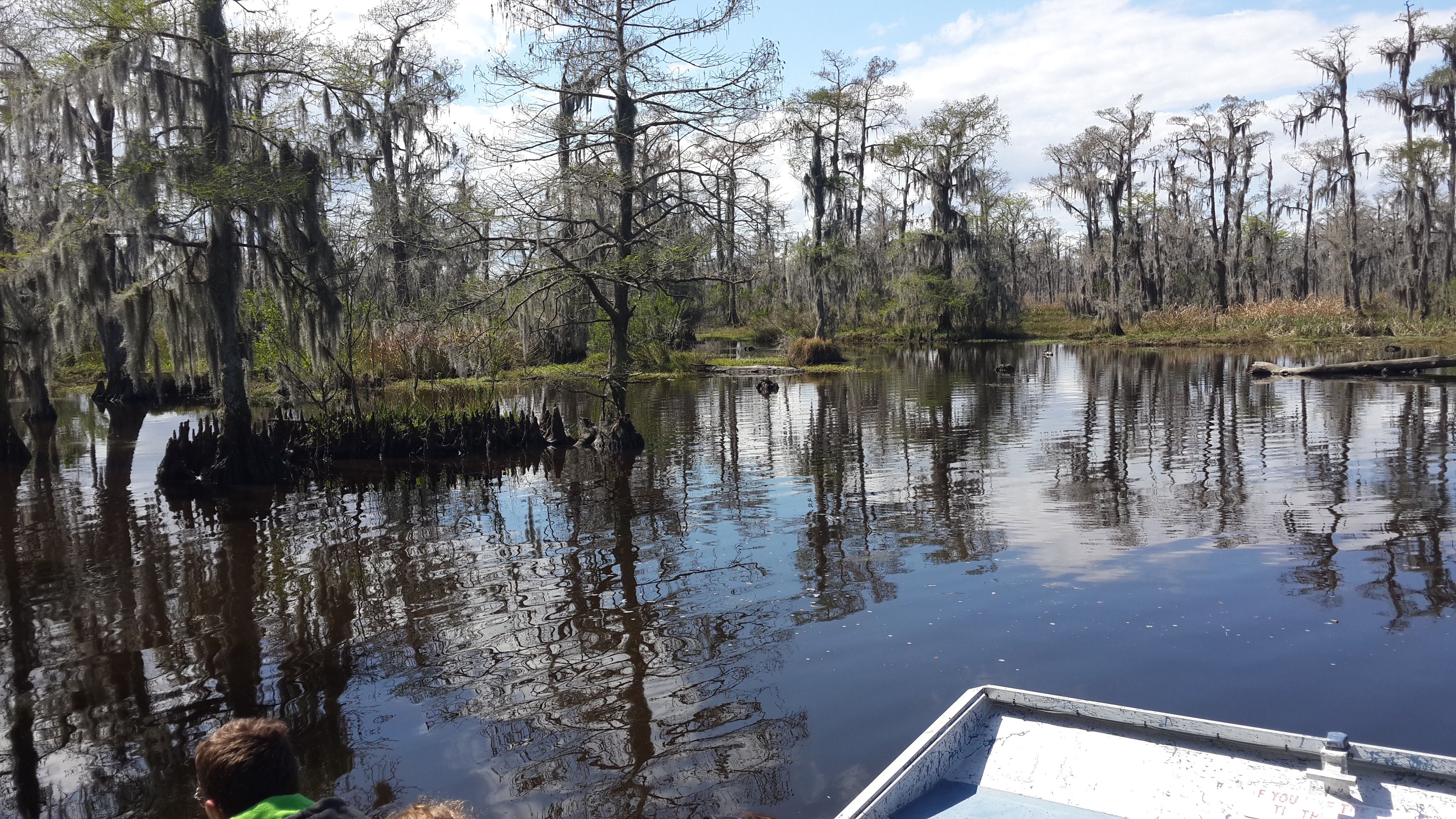 Wetlands surrounding the town Jean Lafitte